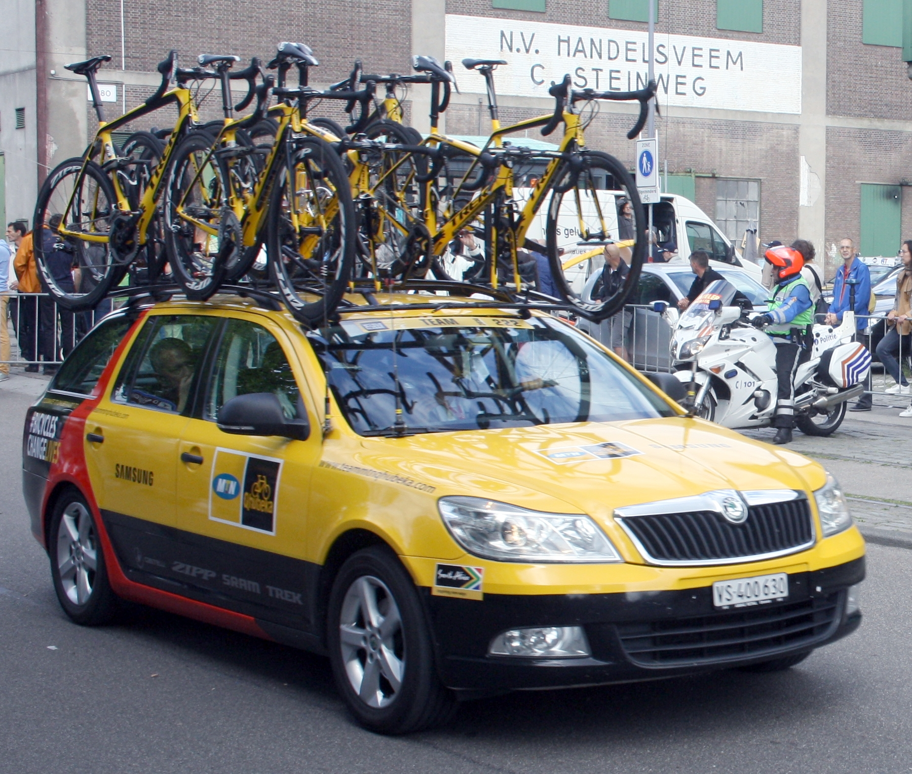 MTN Qhubeka car at the start of the World Ports Classic 2014 in Rotterdam